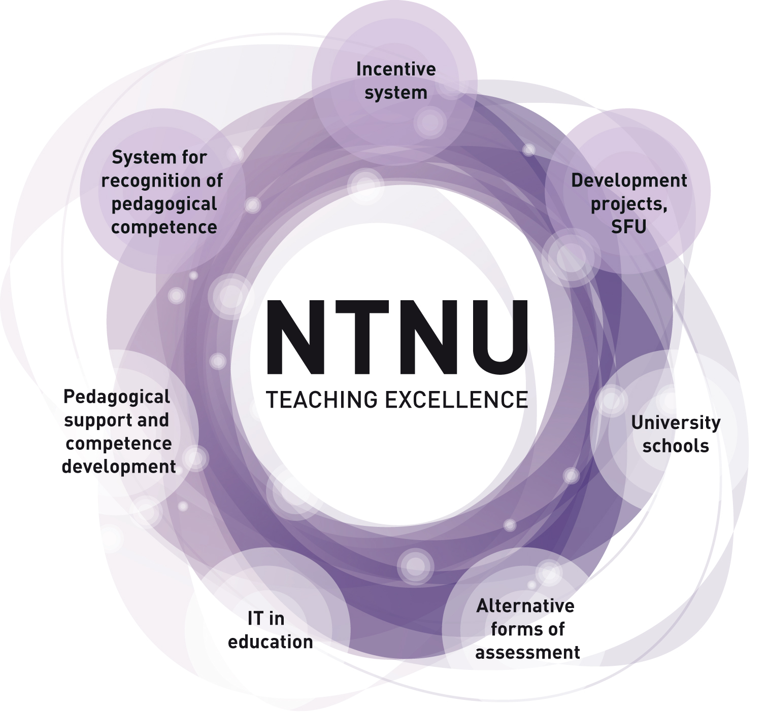 A graphical representation of "NTNU Teaching Excellence", the aim of which is to help NTNU to achieve its goal to provide education characterized by quality at a high international level.